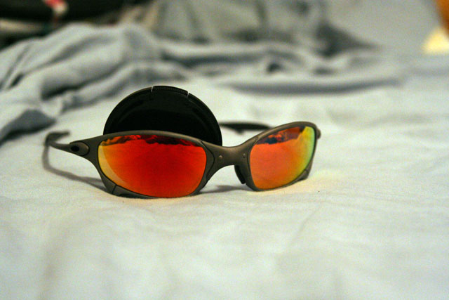 Taken by Eric Hess. These are the Juliet x-metal frames with a newer version of the ruby lenses without serial number on the frame. Older Ruby lenses had deeper reds and purple added in and included serial numbers as well. The original Juliet w/Ruby lenses were often referred to as "Ruby Quartz" lenses. Although Oakley doesn't seem to discuss many aspects of their business practices, it is thought that the ruby lenses used in the Juliets and Pennys were discontinued due to cost of manufacturing and the level of difficulty required to make consistent batches, which could be why the newer ruby lenses look orangy in color instead of the "true" ruby red fans loved back in 2000.